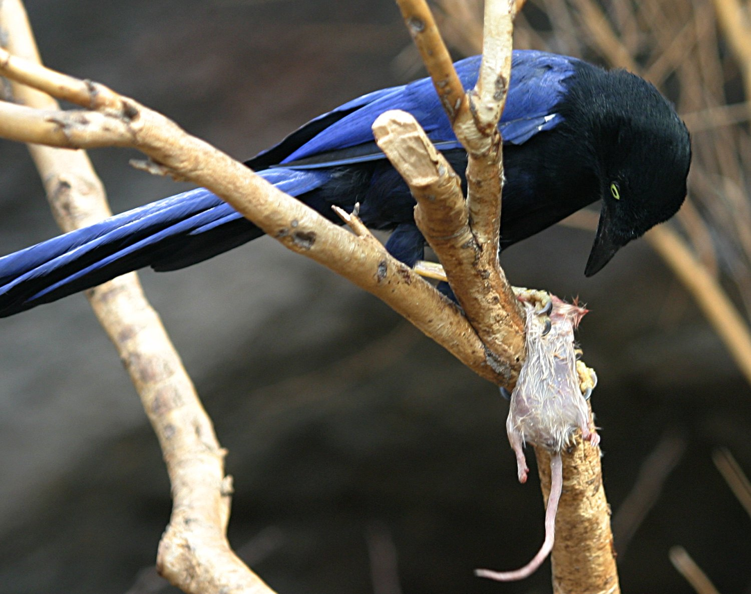 A Purplish-backed Jay eating at the Henry Doorly Zoo in the Omaha, Nebraska.